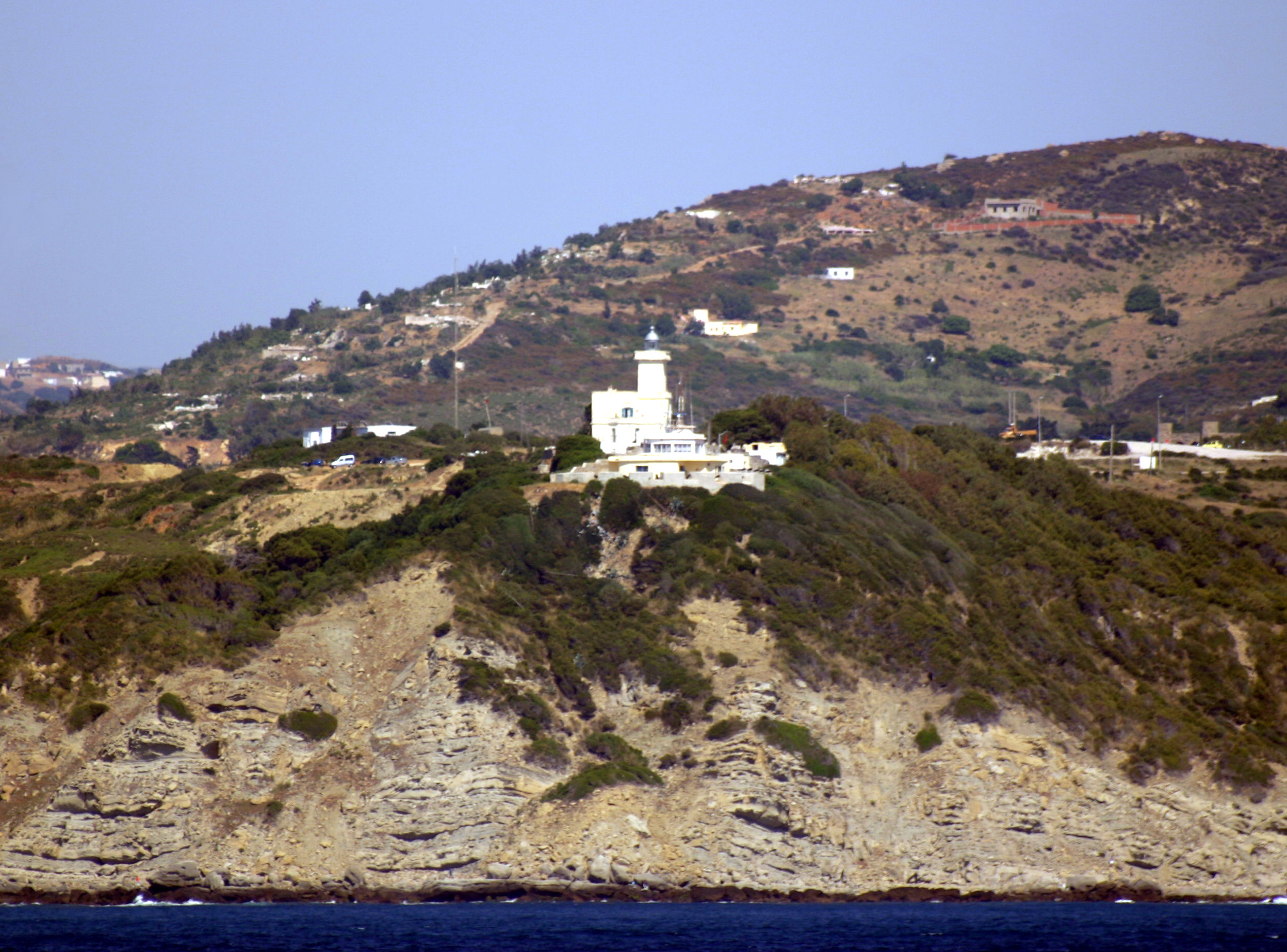 Cape Malabata near Tangier seen from a ferry to Spain